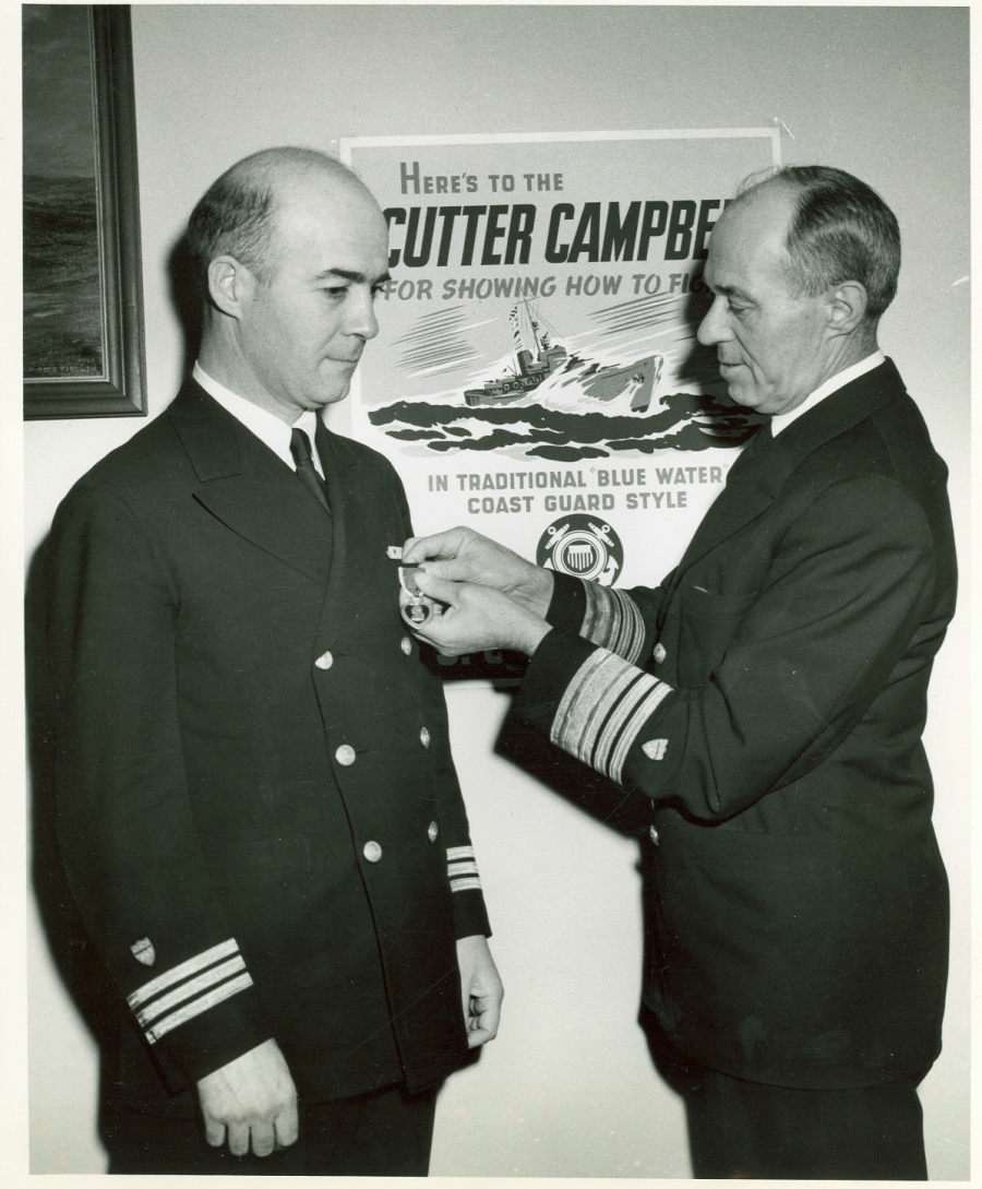 Award of the Purple Heart to James A. Hirshfield